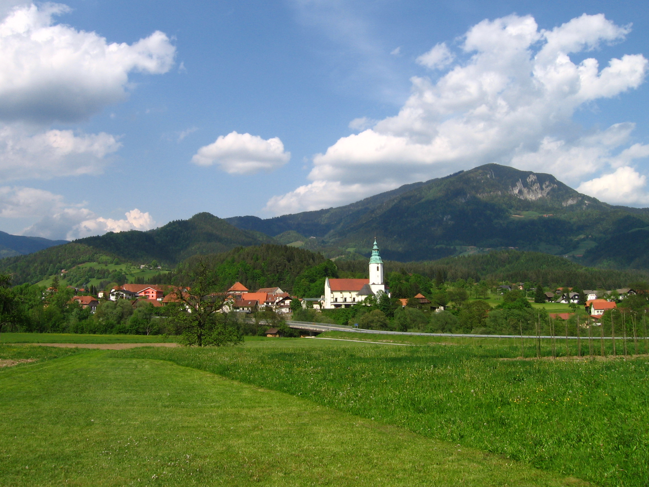 Ljubno ob Savinji with parish church of saint Elisabeth, Slovenia